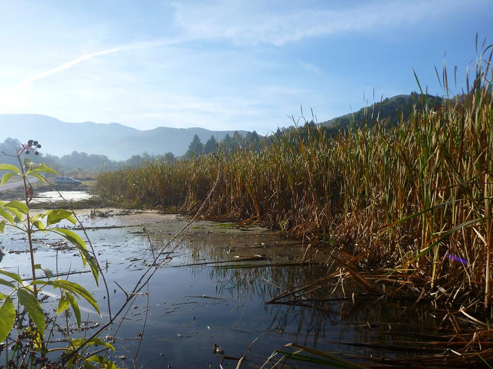 View to "Muhalnitsa" protected area.